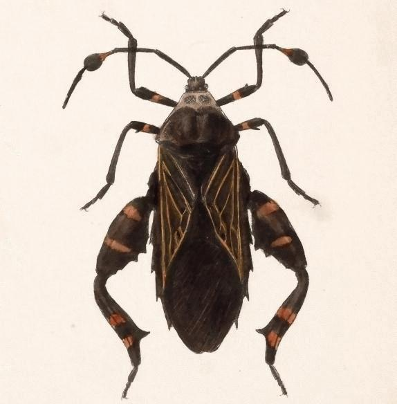 Biologia Centrali-Americana - Thasus gigas (male) Cut-out from original (Biologia Centrali-Americana (8271463705).jpg) shown below